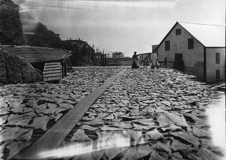 Drying fish, Burgeo, NL, 1908